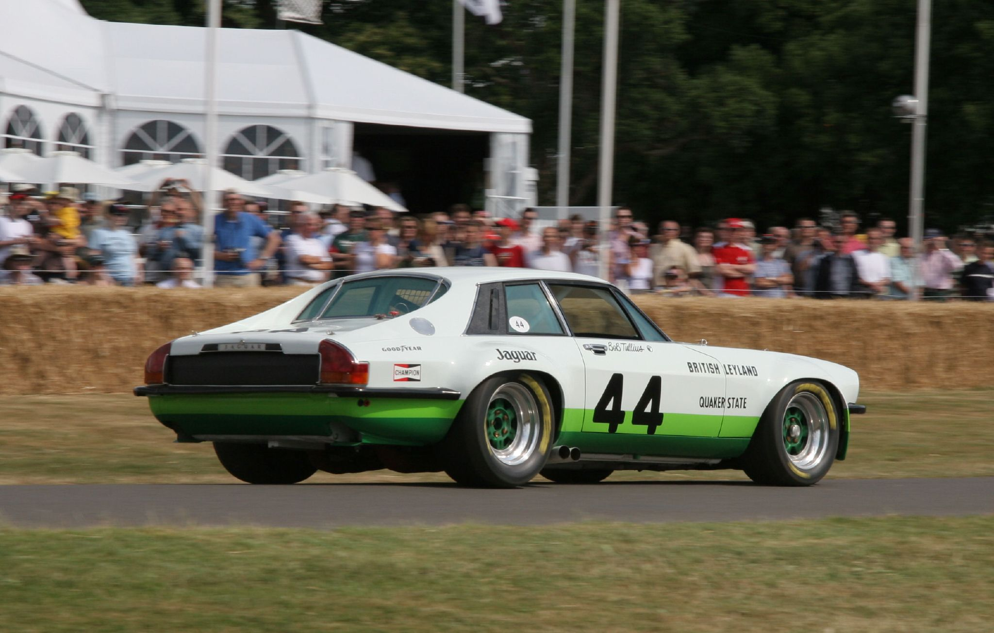 1977 Jaguar XJS Trans-Am at the 2006 Goodwood Festival of Speed